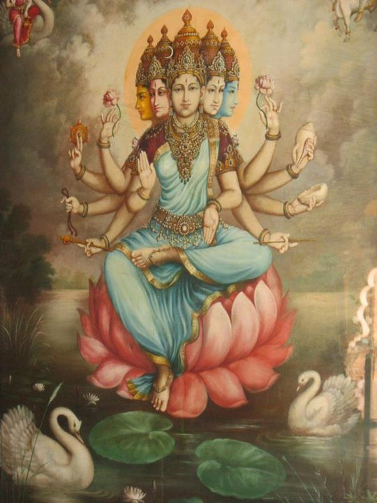 Sri Gayatri Devi - Sri Shilpi Siddanthi Siddalinga Swami, ಶ್ರೀ ಗಾಯತ್ರಿ ದೇವಿ - ಶ್ರೀ ಶಿಲ್ಪಿ ಸಿದ್ದನ್ತಿ ಸಿದ್ದಲಿಂಗ ಸ್ವಾಮಿ